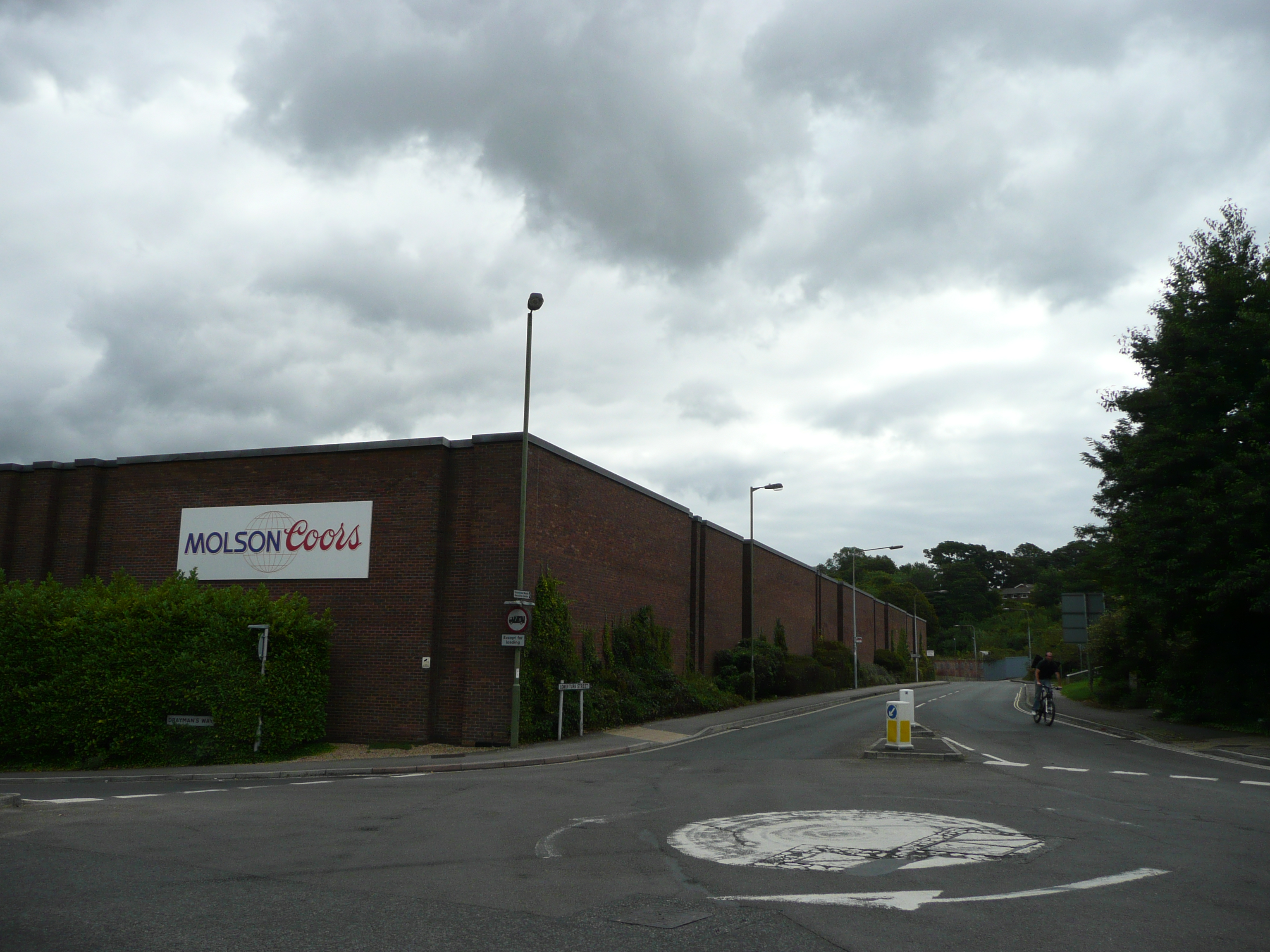 Brewery of the Molson Coors Brewing Company as viewed from the southwest in Alton, Hampshire, England. This brewery was previously operated by the Coors Brewing Company.